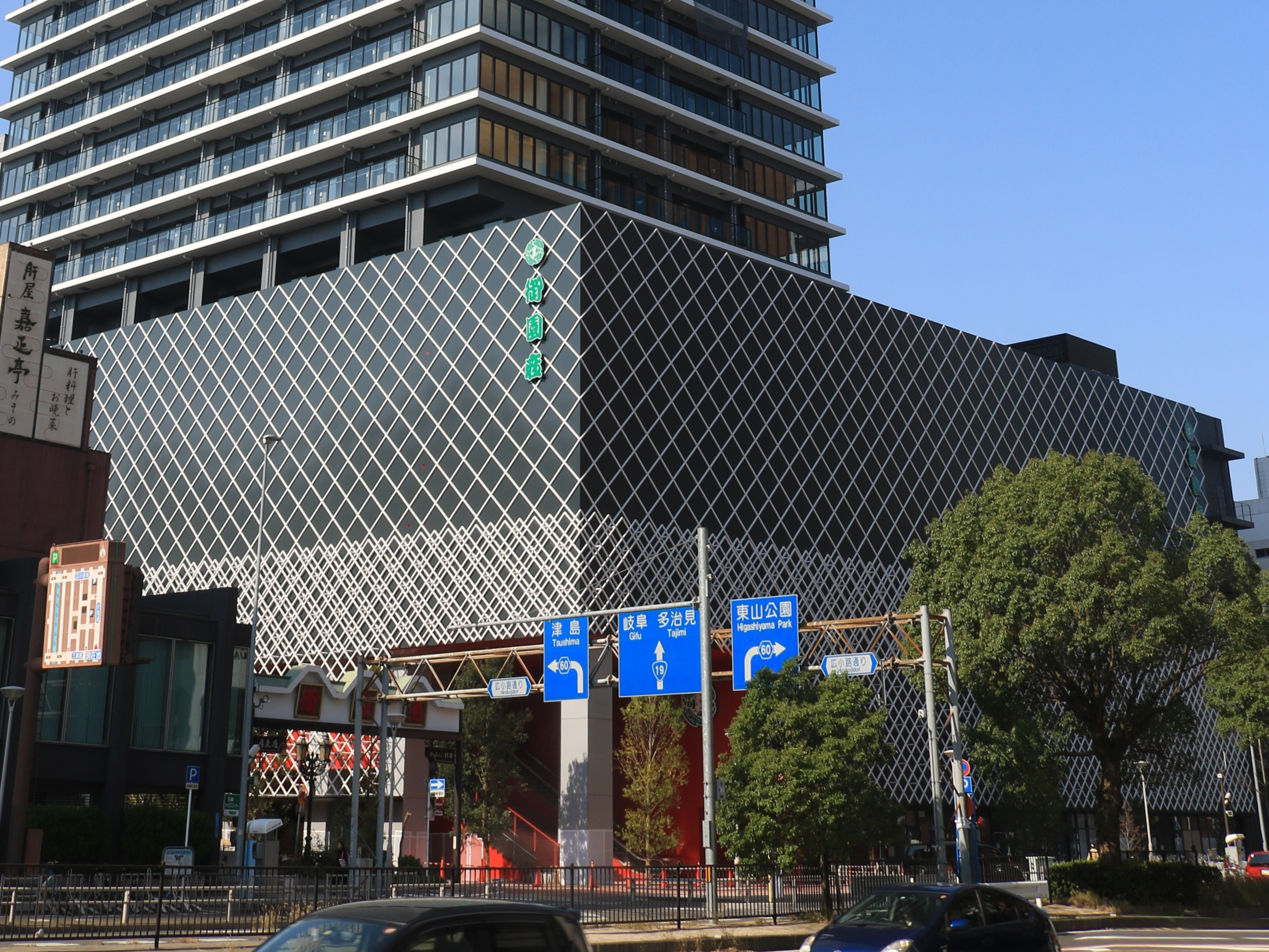 Misono-za in Sakae, Naka-ku, Nagoya, Aichi Prefecture, Japan.